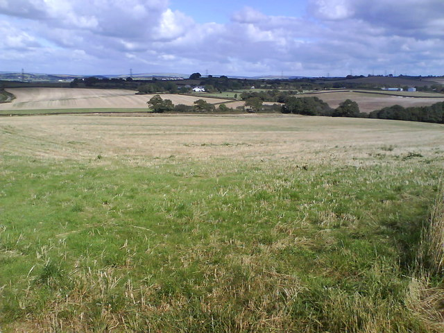 Over the fields The ancient settlement of Honiton Barton can just be made out across the fields.